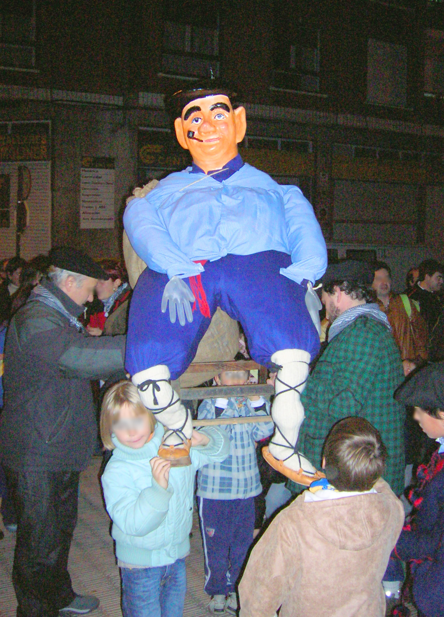 Olentzaro / Olentzero por las calles de Bagaza, Baracaldo, Vizcaya, País Vasco, España.